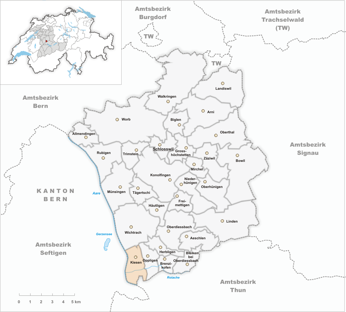 Municipality Kiesen